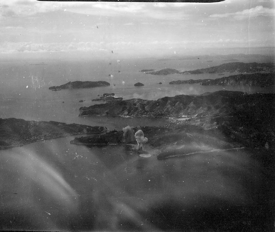 Aerial photograph showing a burning Japanese battleship Ise, west of the Ondo-no-seto, Kure, Japan.